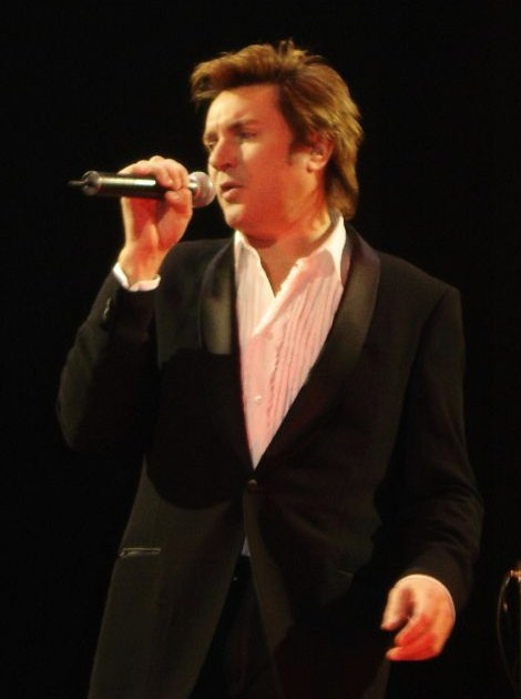 Simon Le Bon live in Toronto.